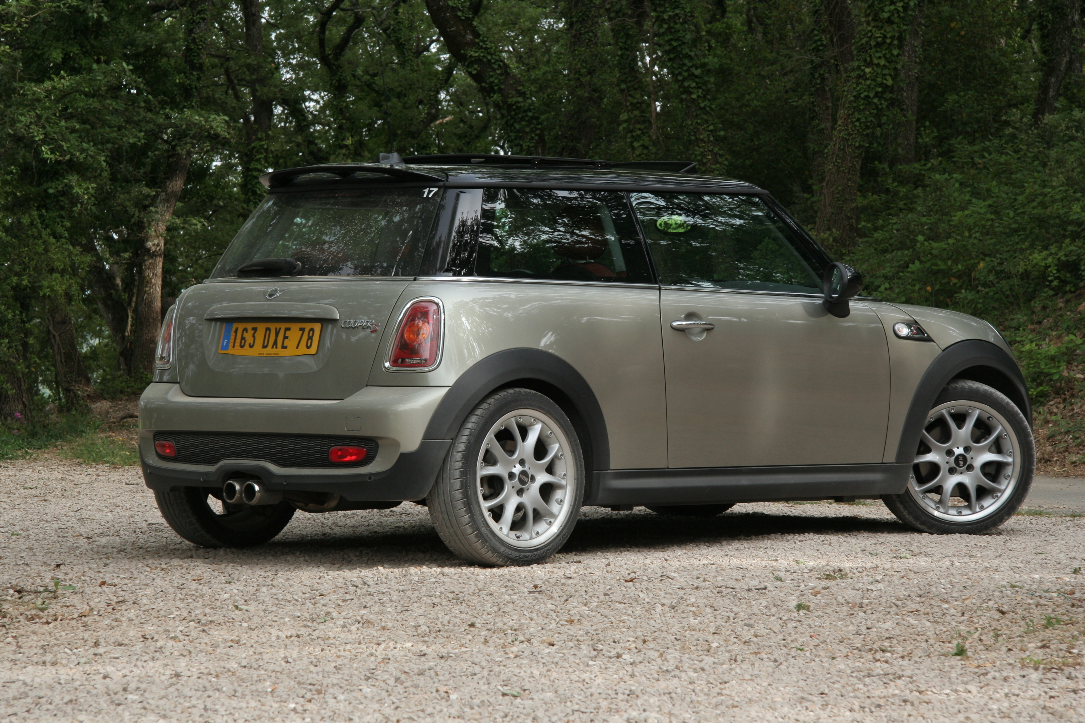 BMW Mini Cooper S